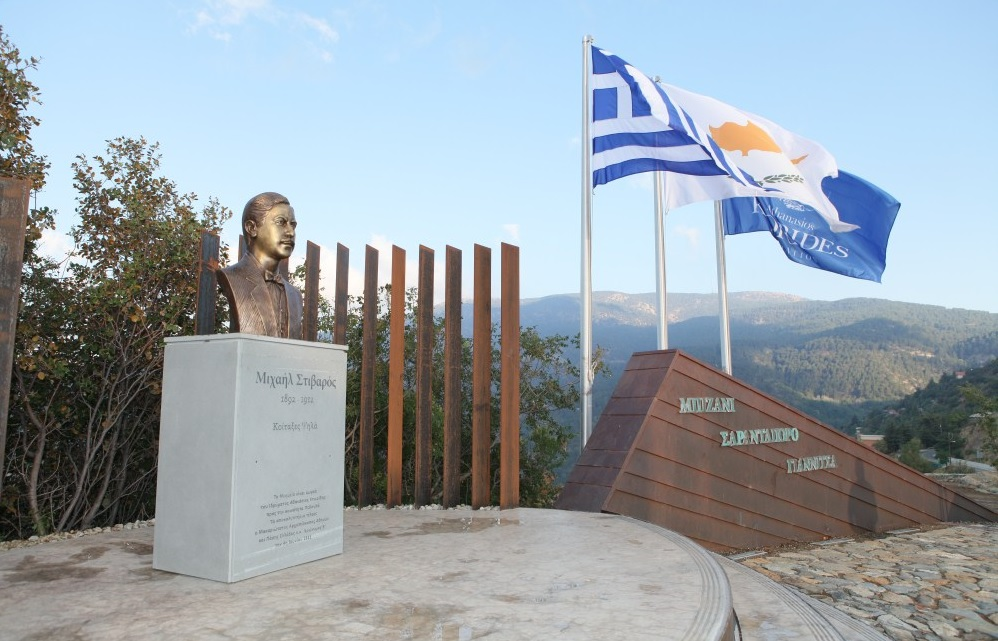 Monument of Michalis Stivaros in Pedoullas, Cyprus